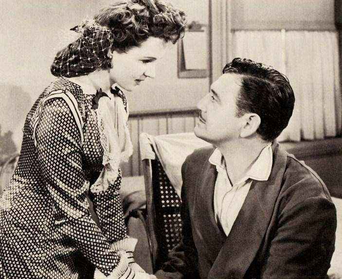 Jane Wyatt and Richard Dix in The Kansan (1943) - cropped screenshot (original image damaged, modified : see source)